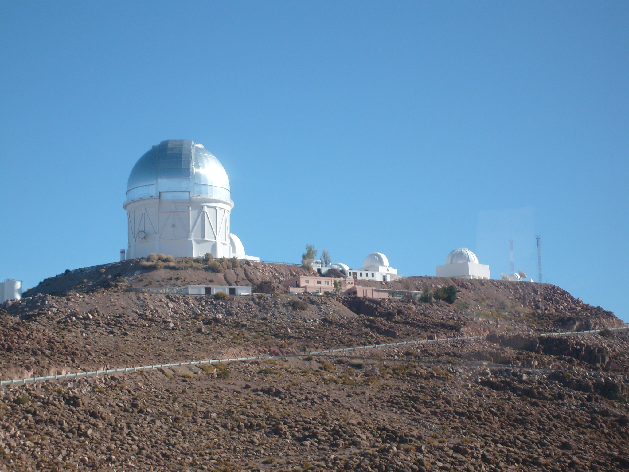 General View Cerro Tololo Observatory